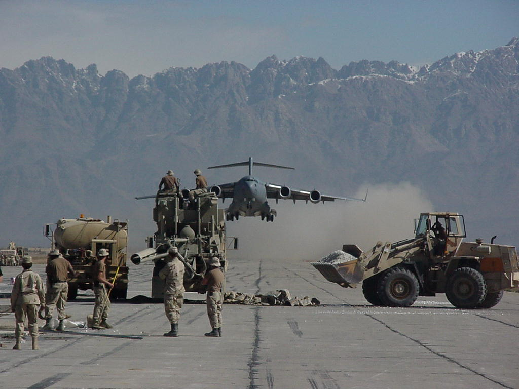 Construction on a runway of Bagram Airfield.